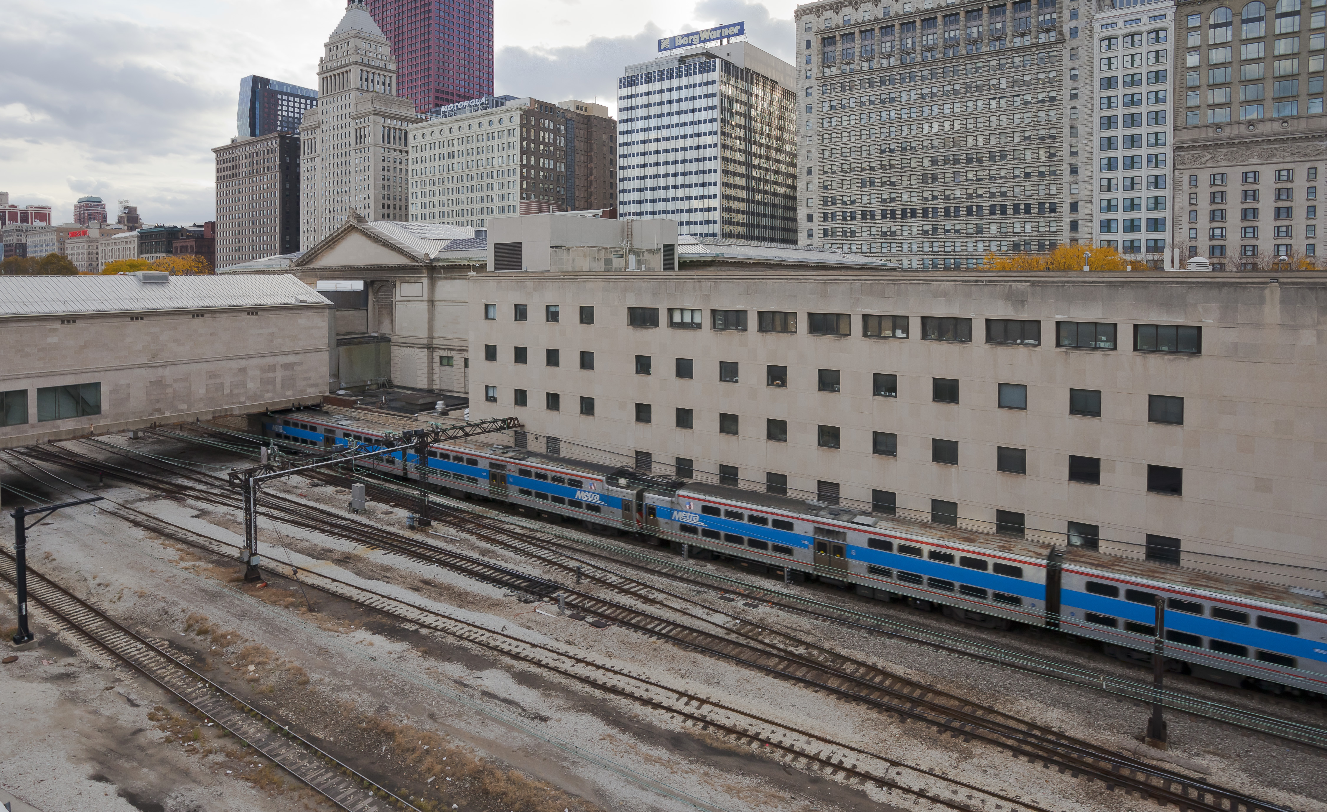 Train station at E Monroe St, Chicago, Illinois, USA